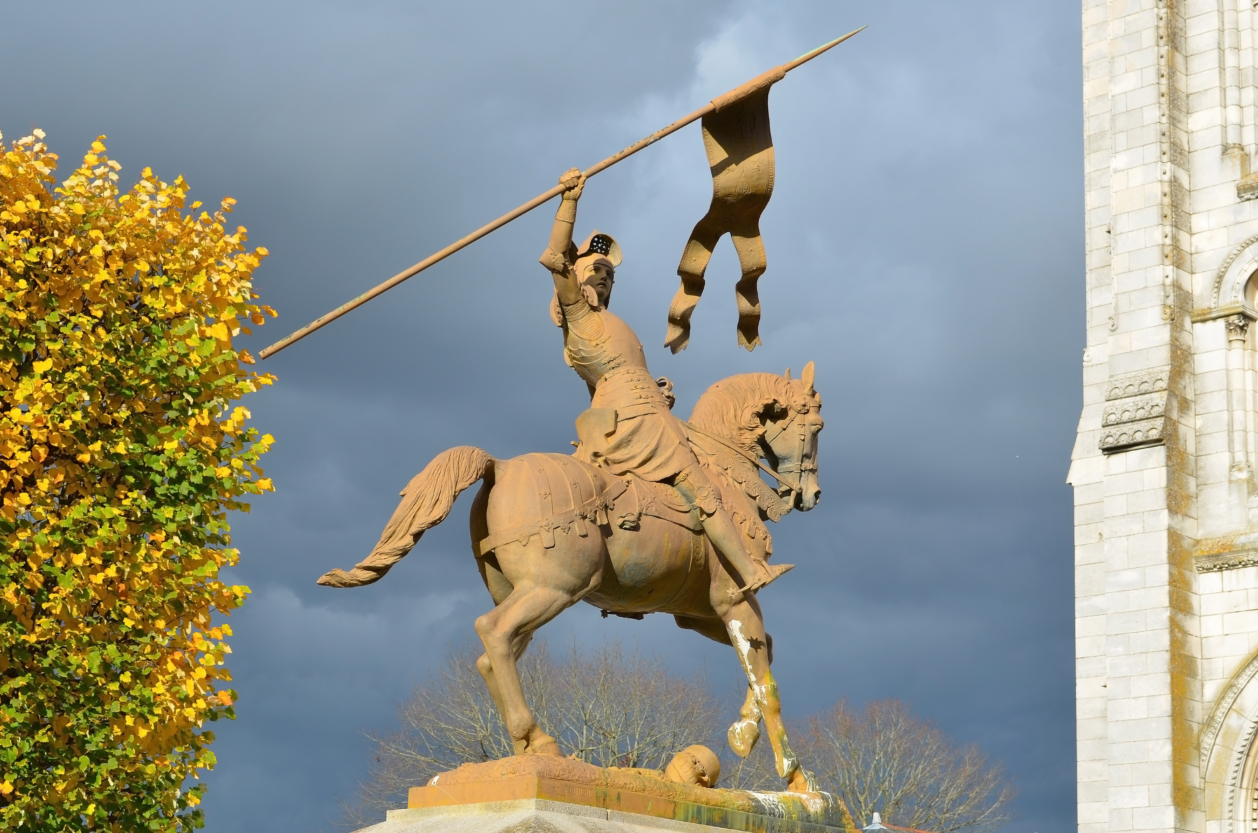 Equestrian statue of Joan of Arc (1906) by Charles-Auguste Lebourg - Nantes, France